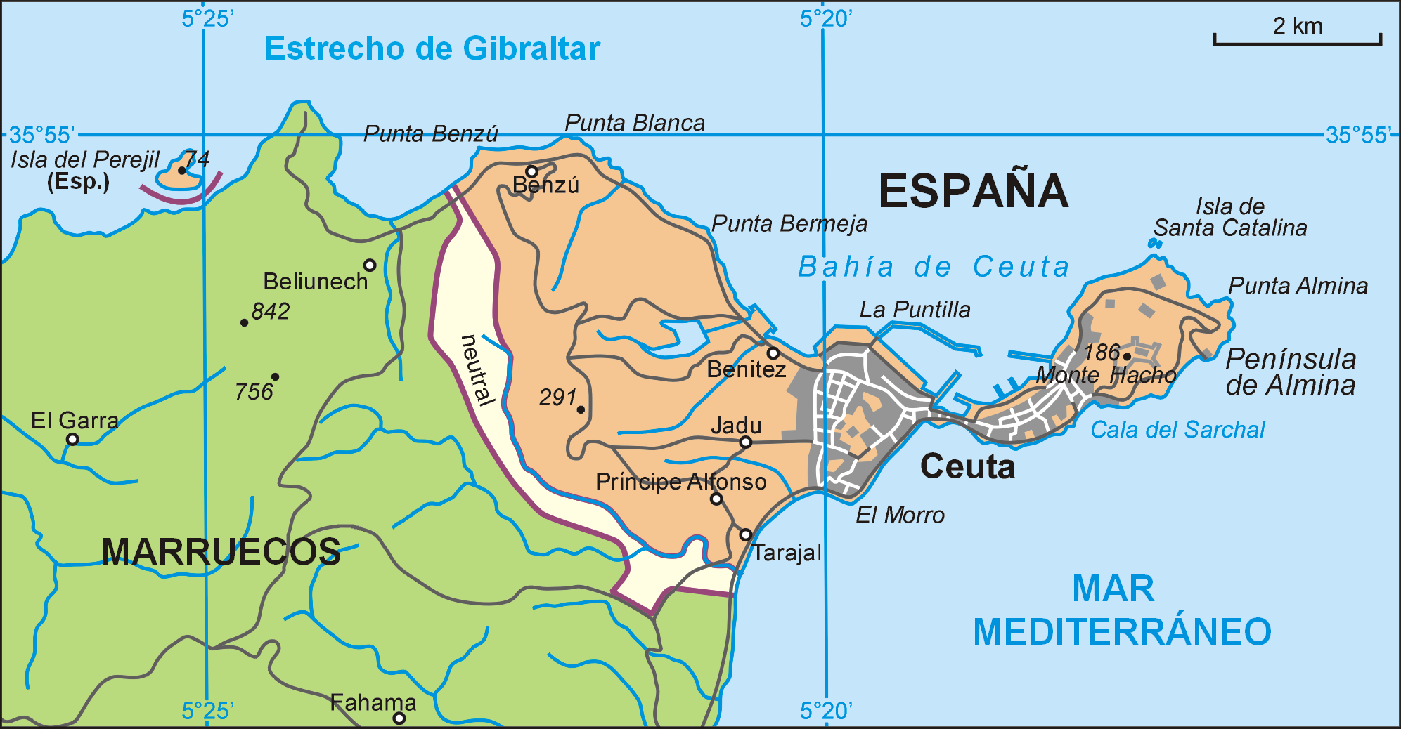 Map of Ceuta and the Perejil Island, in Spain